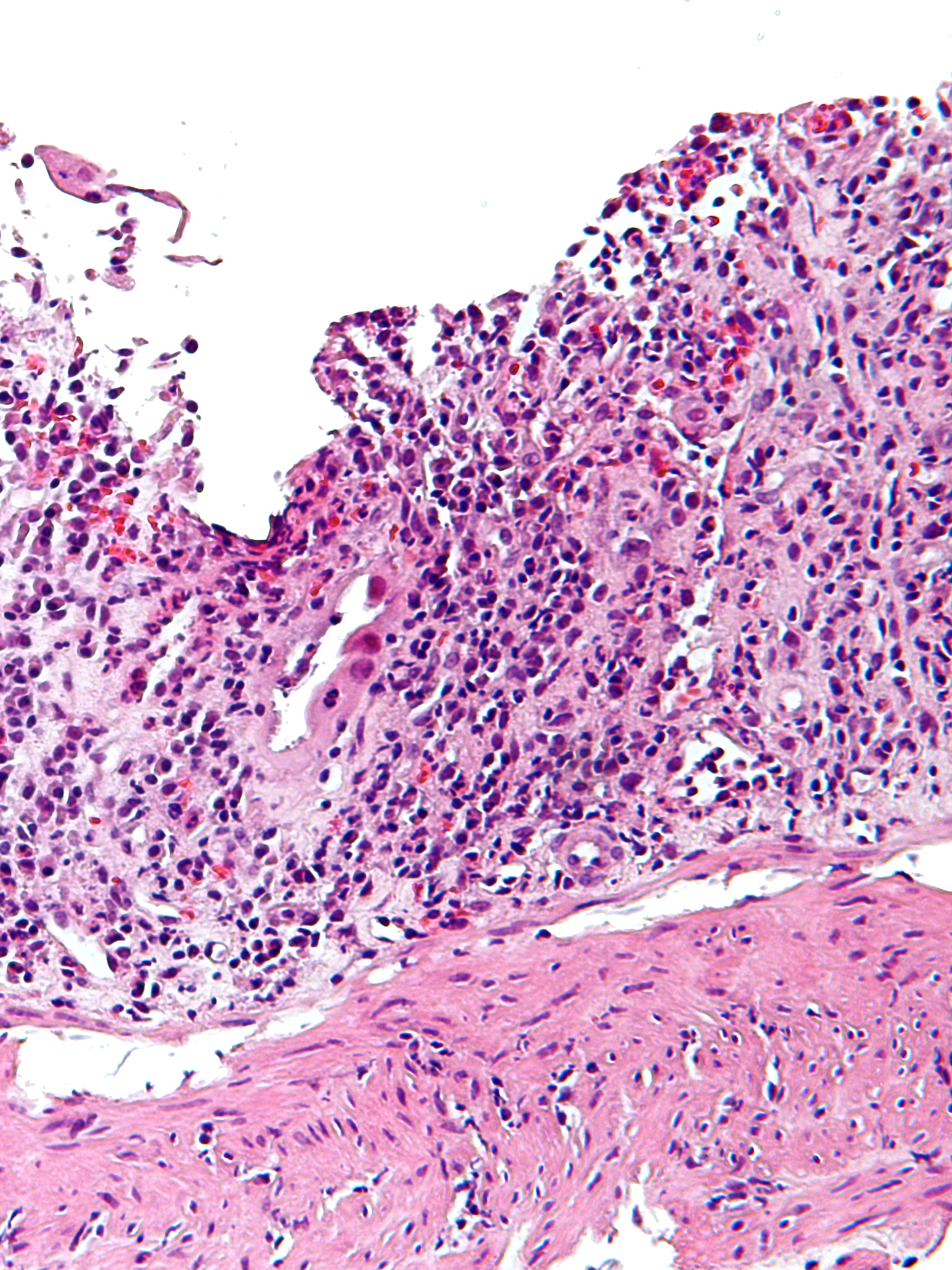 High magnification micrograph of cytomegalovirus colitis, commonly abbreviated CMV colitis. H&E stain. Related images Intermed. mag. High mag.